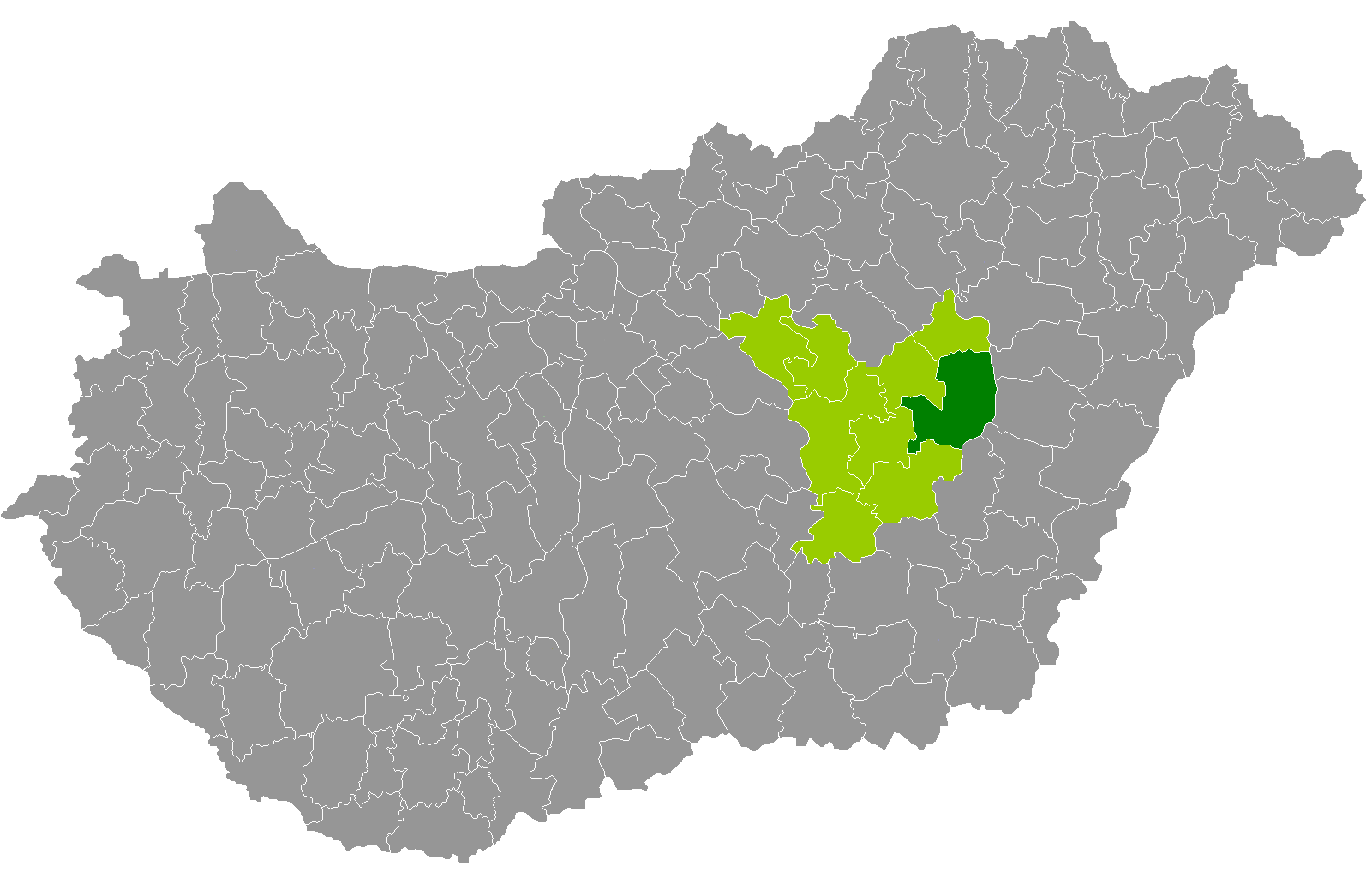 Location of Karcag District, Jász-Nagykun-Szolnok, Hungary